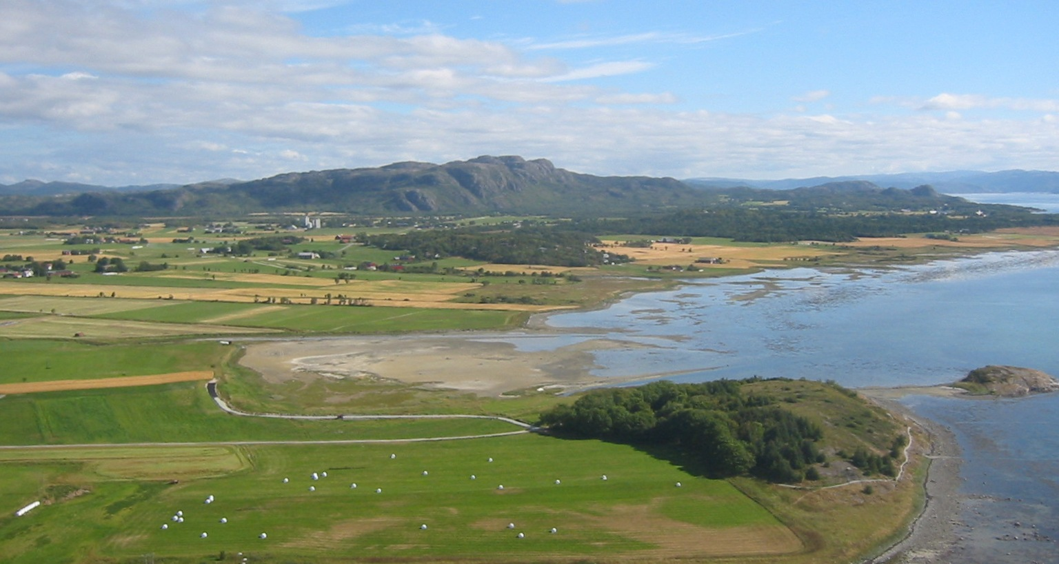 From Ørland (Ørland), Sør-Trøndelag Norway. Isle Bruholmen and parts of Austrått and Rusaset